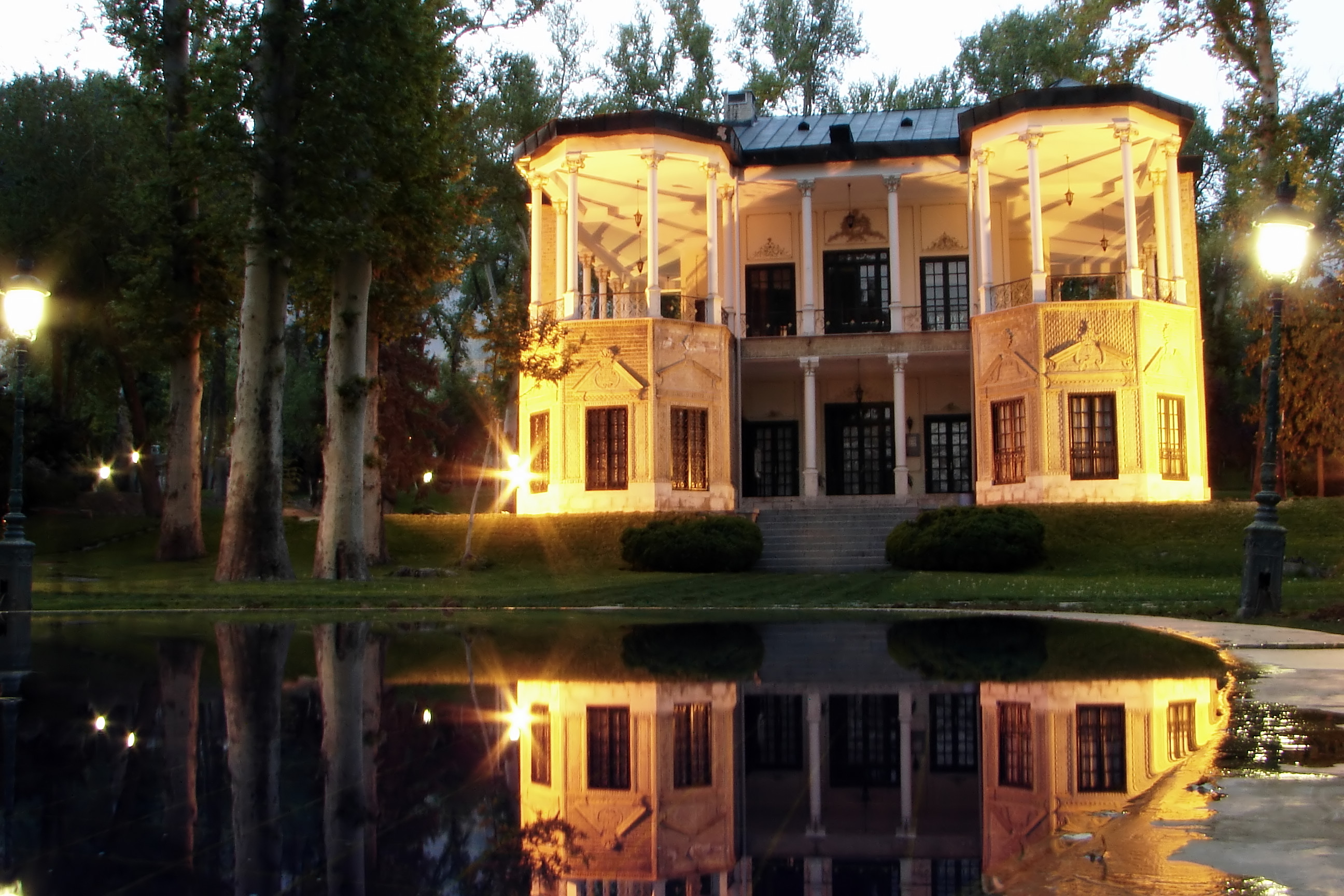 Ahmad Shah's Pavilion or Kushk-e Ahmad Shahi is the smallest palace (castle) inside Niavaran Palace Complex — Tehran. Example of Qajar era architecture. Niavarān Palace Complex It is situated in the northern part of Tehran, Iran. It consists of several buildings and a museum. The Sahebqraniyeh Palace from the time of Nasir al-Din Shah of Qajar dynasty is also inside this complex. The Niavaran Palace was the primary residence of the last Shah, Mohammad Reza Pahlavi and the Imperial family until the Iranian Revolution. Check the MAP for geotag info. (When you zoom at highest level, you may think that I misplaced it. No, this pavilion seems almost invisible on this satellite map, maybe because of greenish ceiling which is mixed with heavy green trees and bushes of the garden) Added to Flickr Explore (interestingness) page of 7 May 2007.